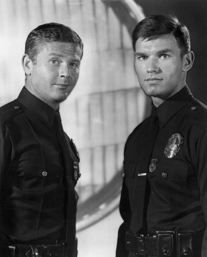 Photo of Martin Milner (left) as Malloy and Kent McCord as Reed from the television program Adam-12. The storyline was about two police officer partners-one a veteran (Malloy) and one a rookie (Reed).